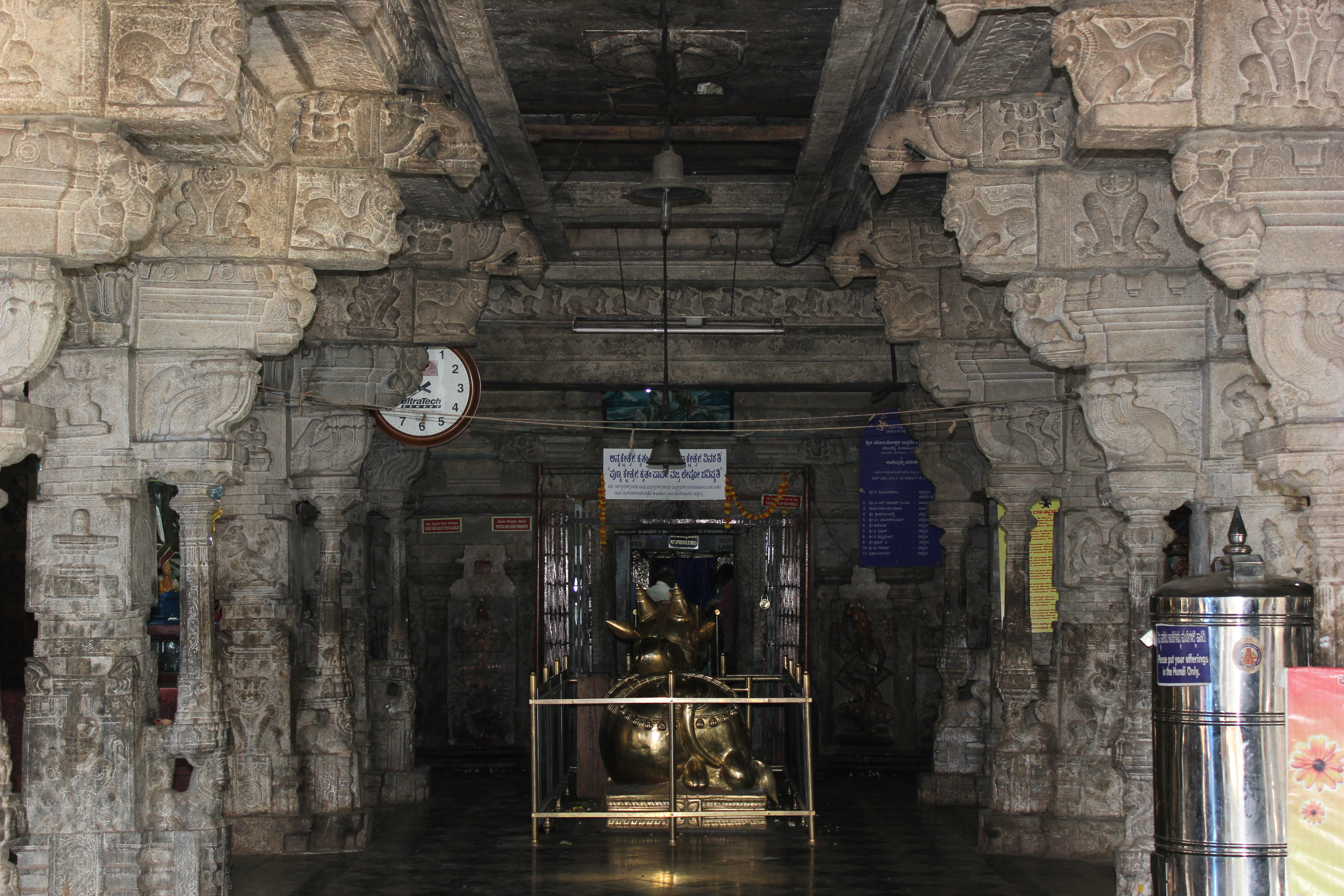 This photograph was taken by me at the Someshwara temple built in the 16th century by Kempe Gowda, the founder of Bengaluru city (Karnataka state, India) and a feudatory of the Vijayanagara empire.